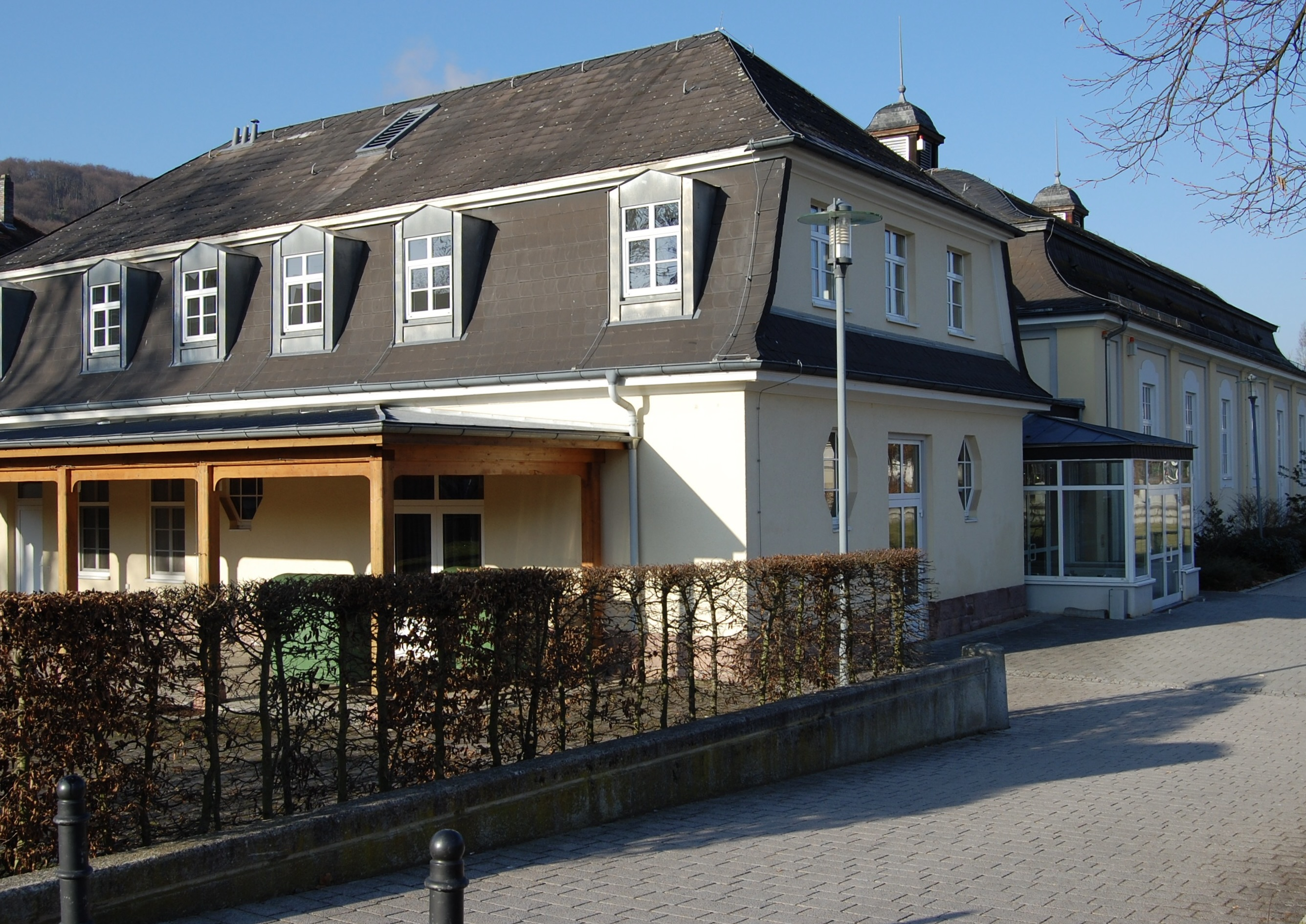 The Tattersall building in Bad Kissingen